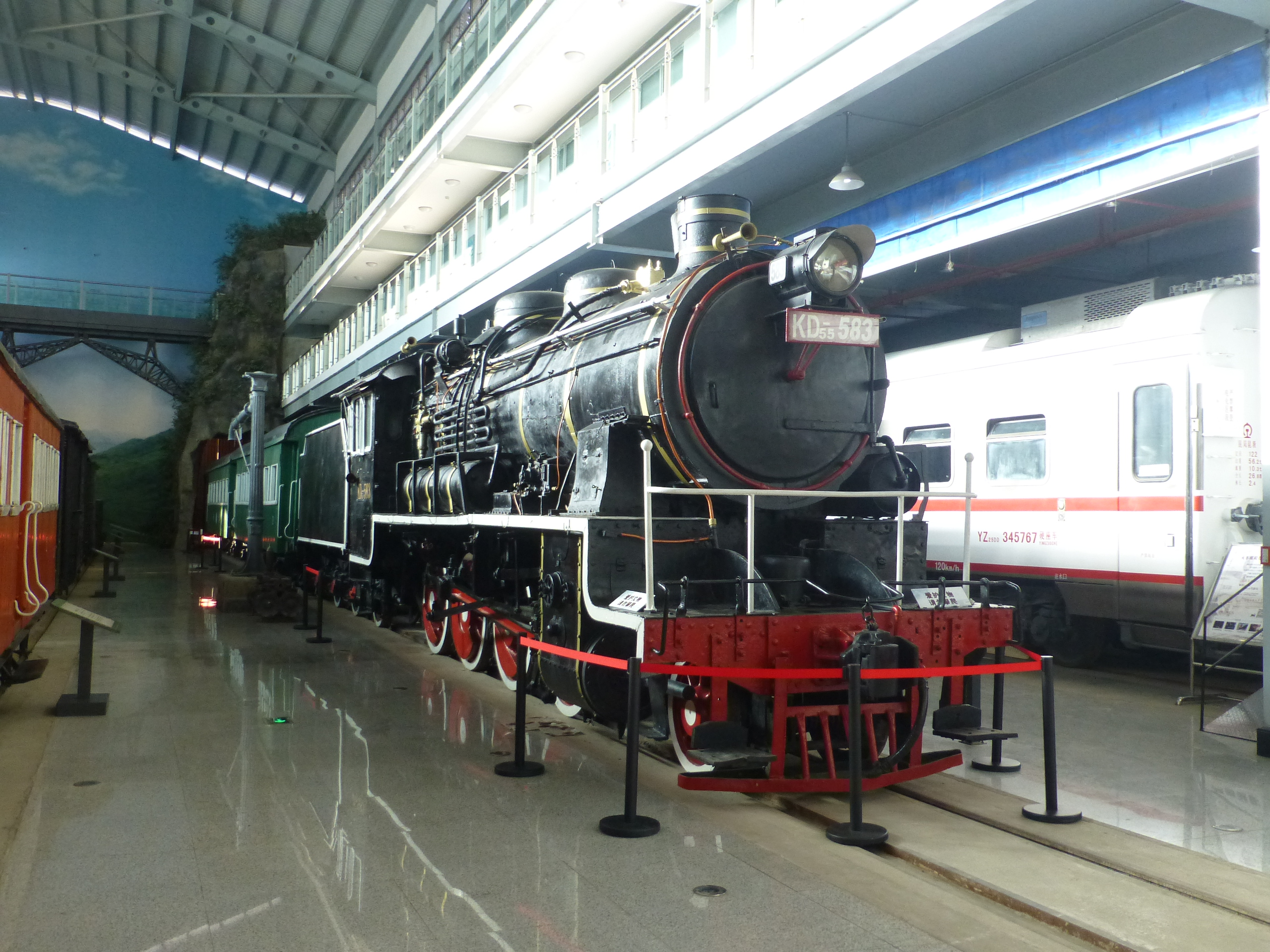 Rolling stock on display in the Yunnan Railway Museum (Kunming North Railway Station)